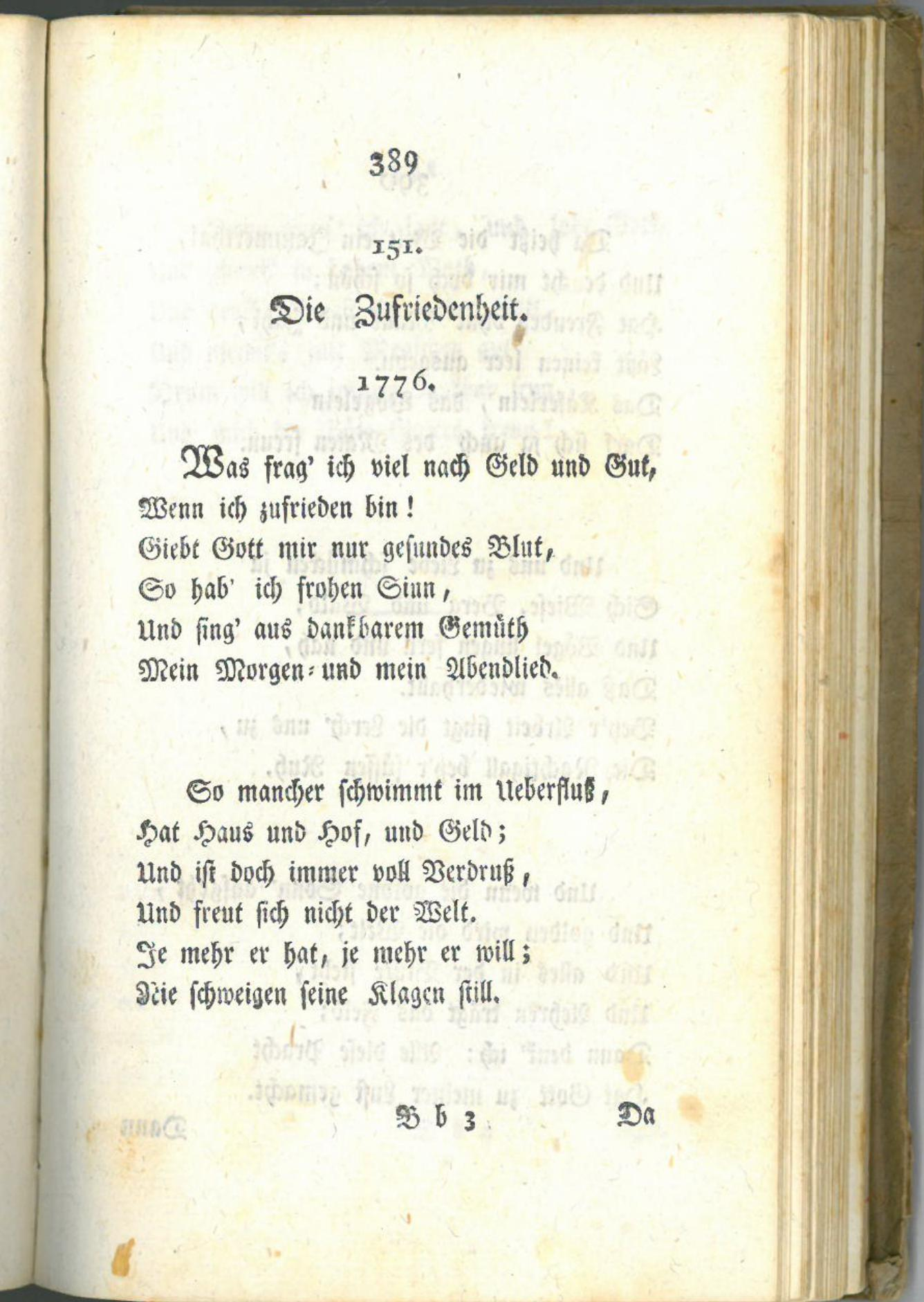 Scan of "Die Zufriedenheit" in the 1783 edition